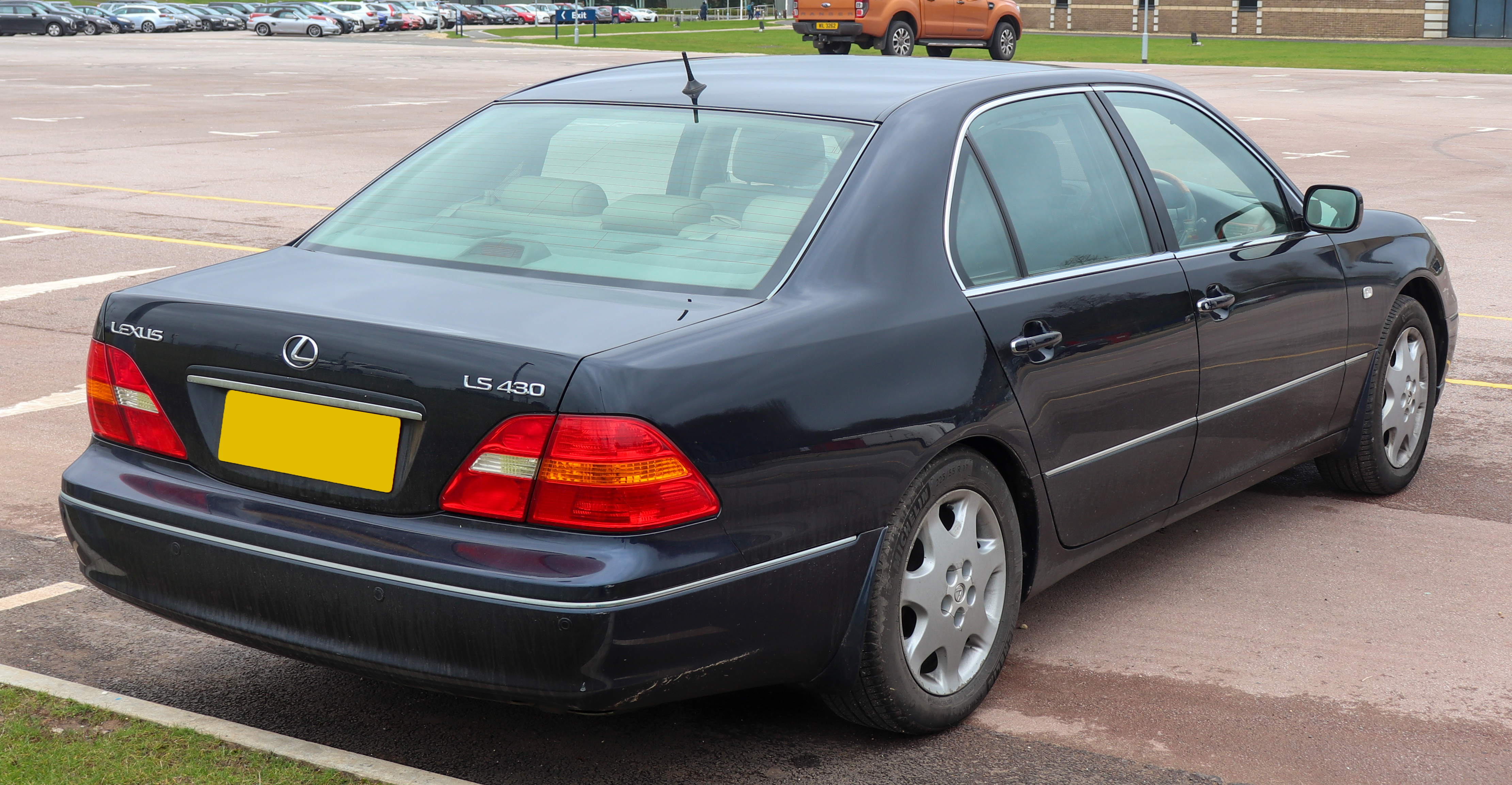 2003 Lexus LS430 Automatic 4.3 Rear Taken at the British Motor Museum, Gaydon